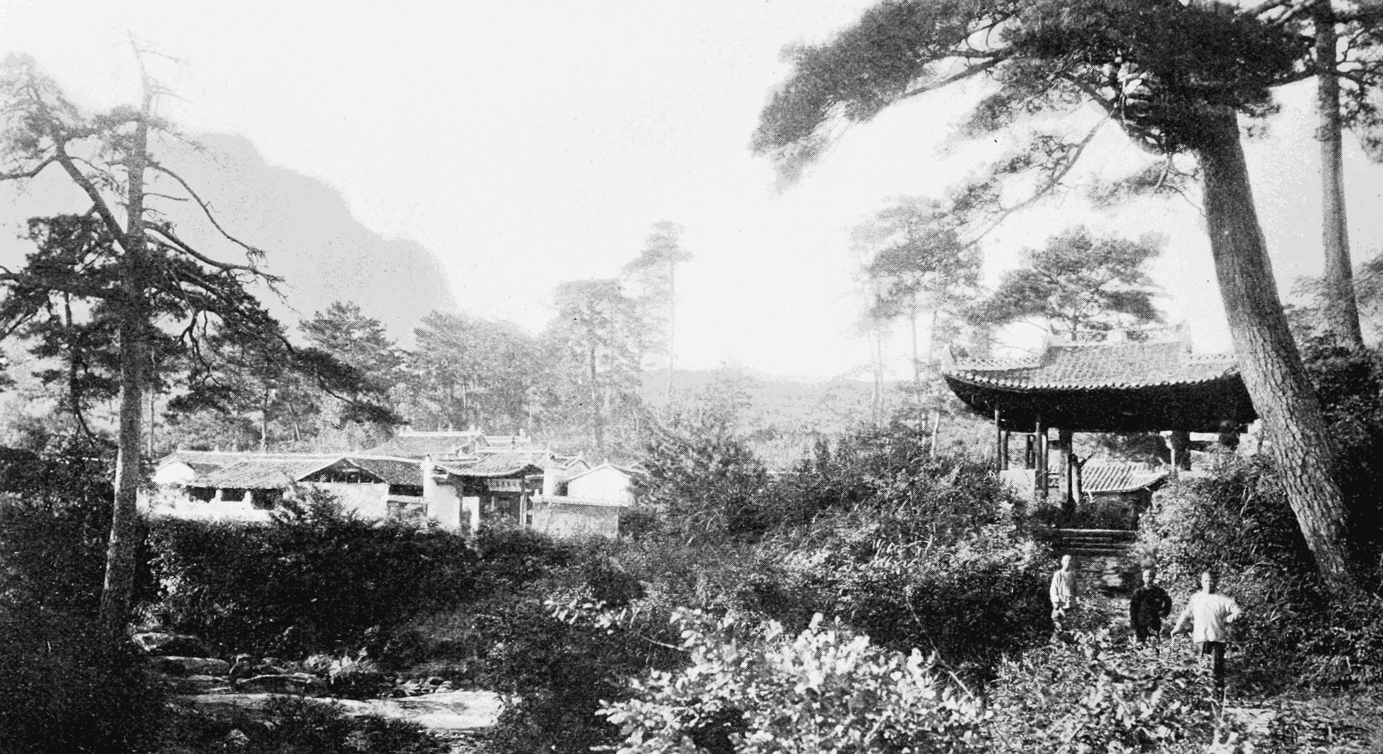 White Deer college